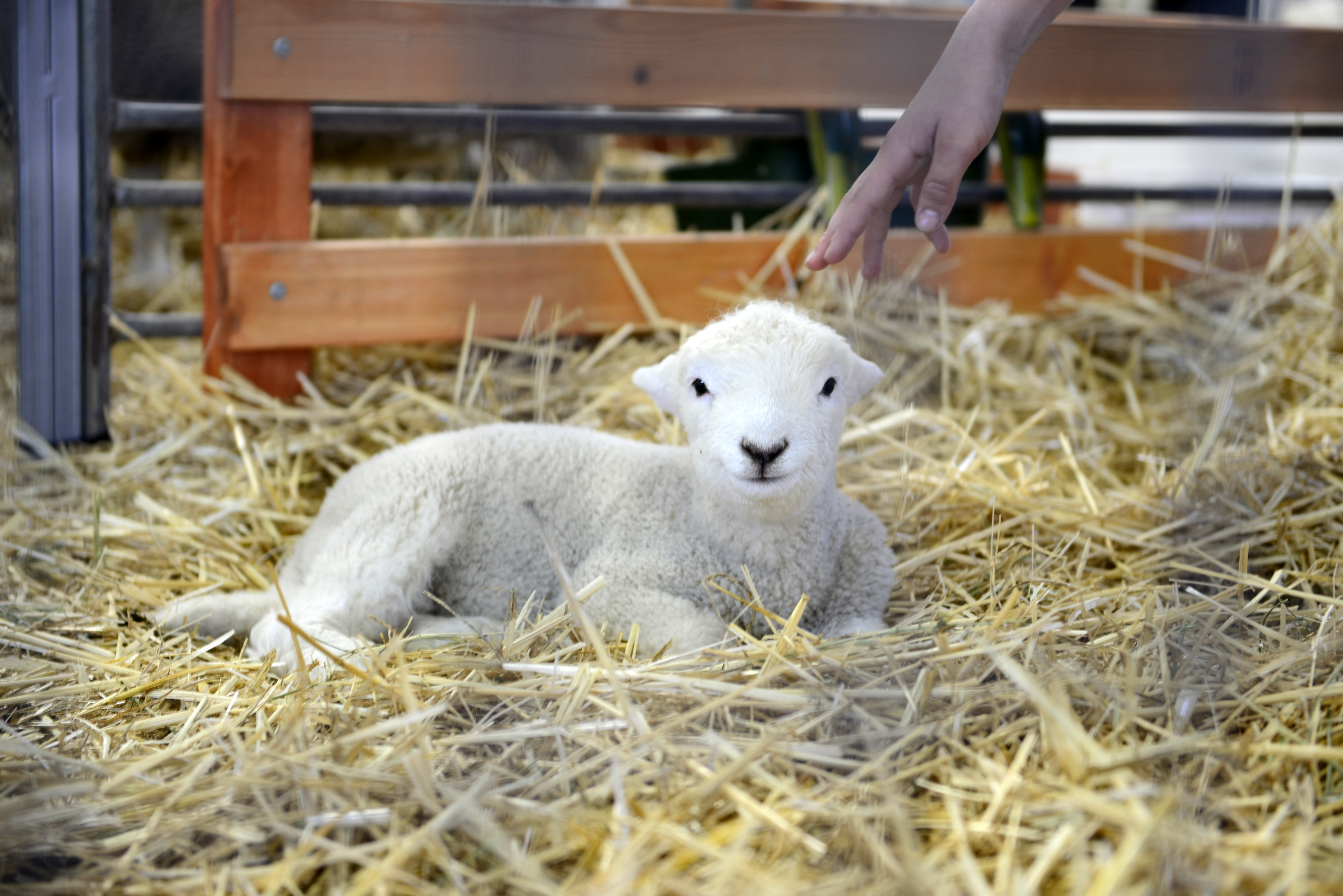 Its all about perception, it looks like the lamb is smiling.